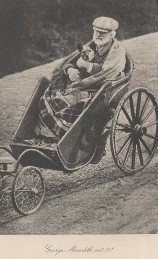 George Meredith at age 72.